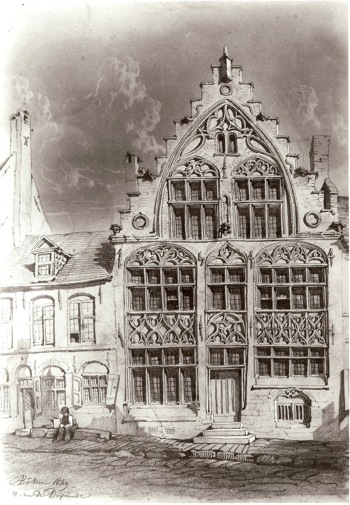 Biebuyck's house in Ypres - 1544. Engraving Auguste Böhm, 1849.